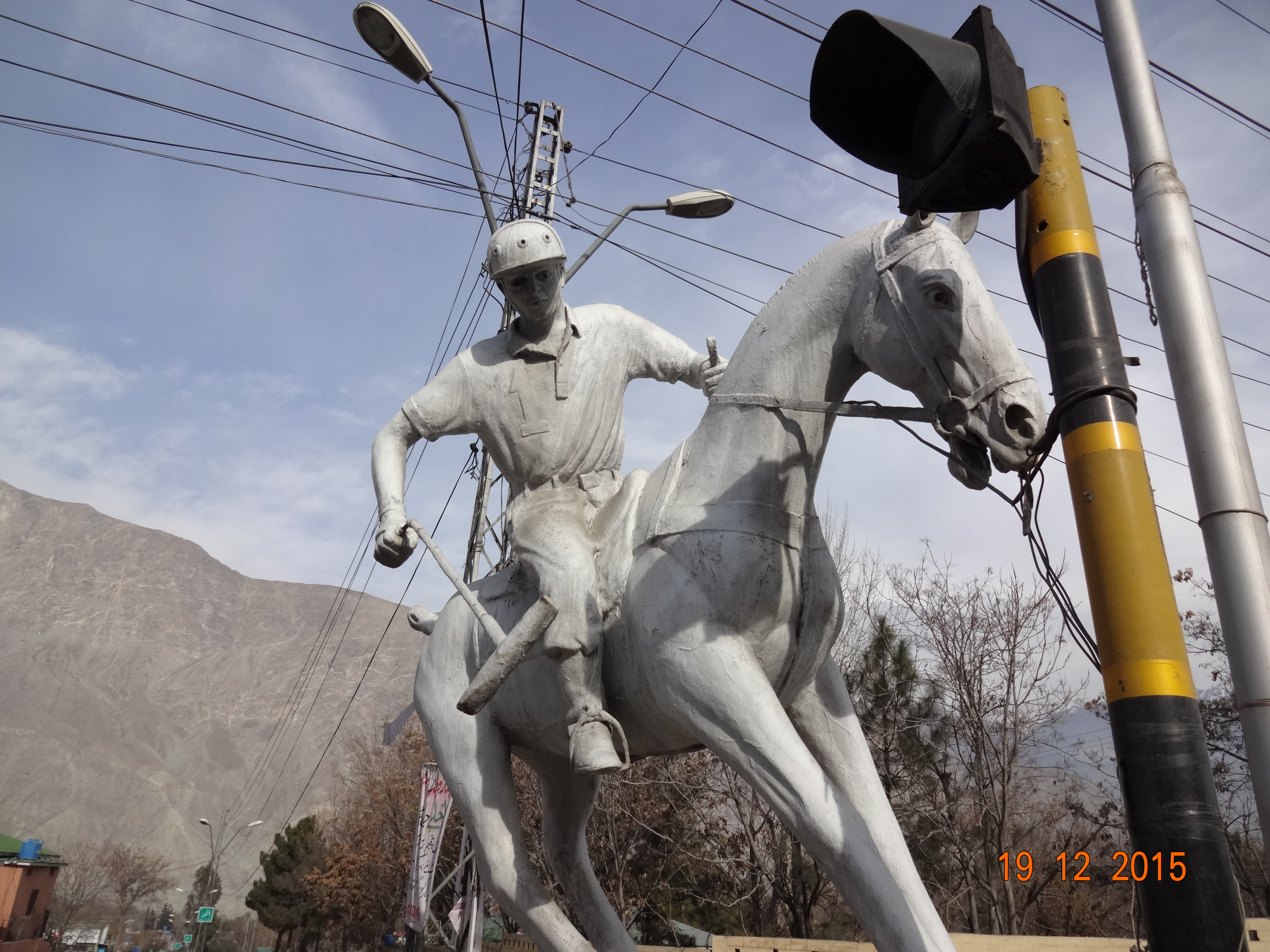 Polo Statue Located near Army Public Schools and Colleges Jutial Gilgit.